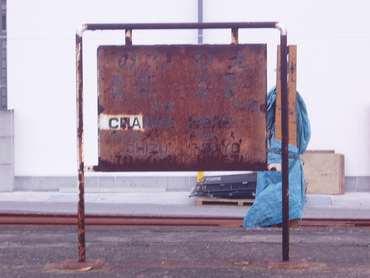 West Japan Railway Kishin Line&Inbi Line Higashi-Tsuyama Station Change Information Signboard 西日本旅客鉄道 姫新線＆因美線 東津山駅乗換案内板